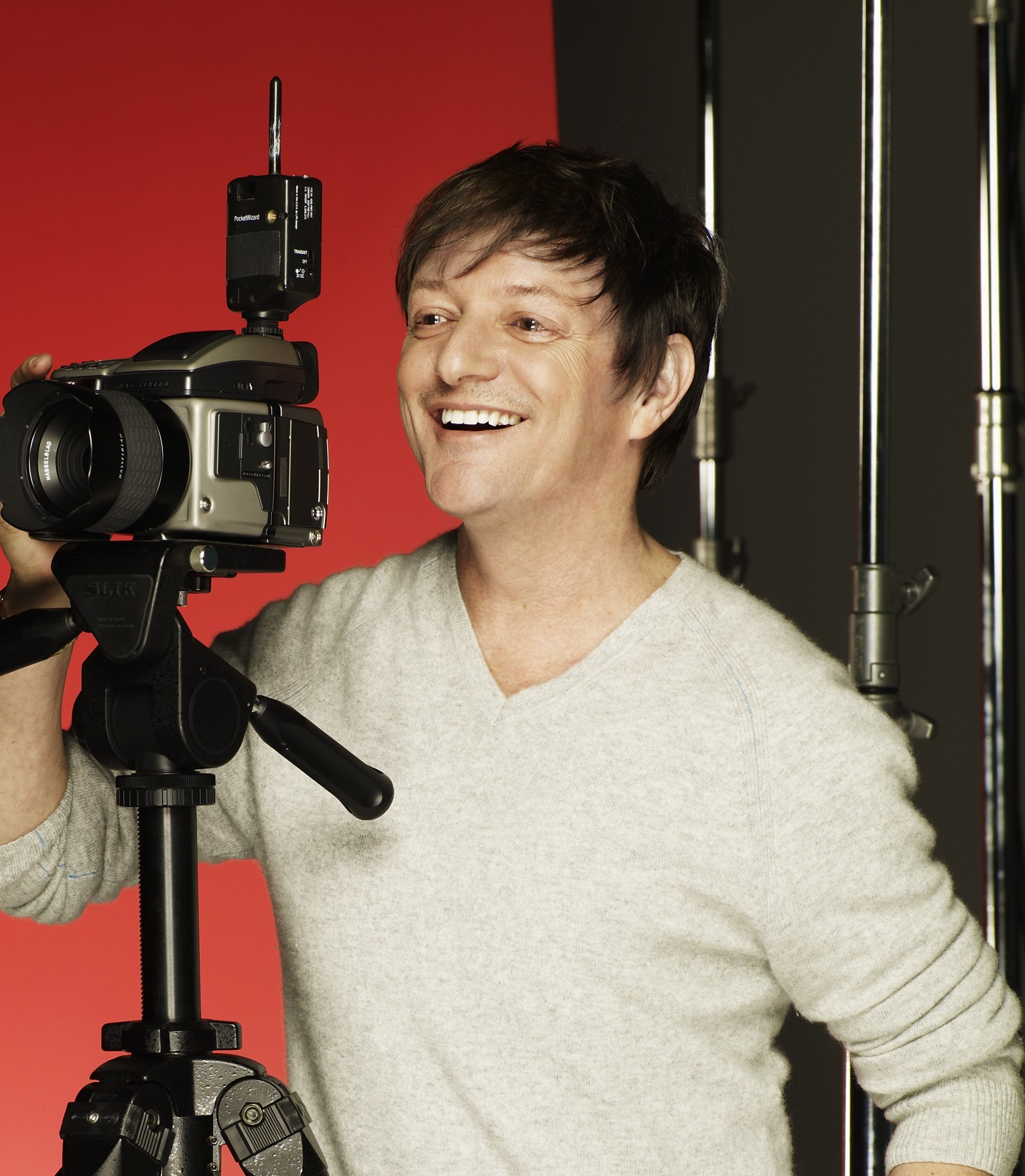 photo of Matthew Rolston on set of Oprah shoot